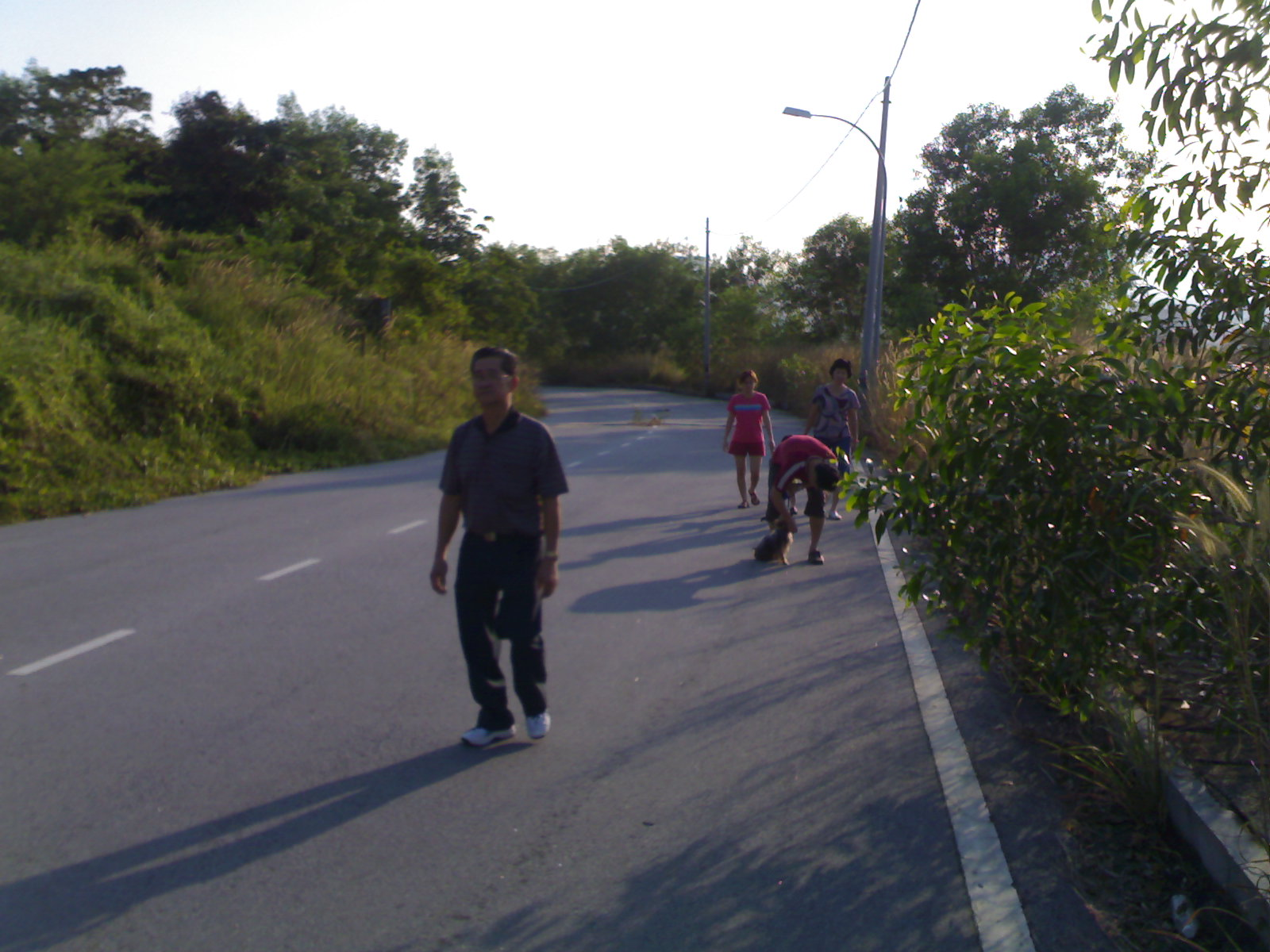 Joggers at Cangkat Sungai Ara